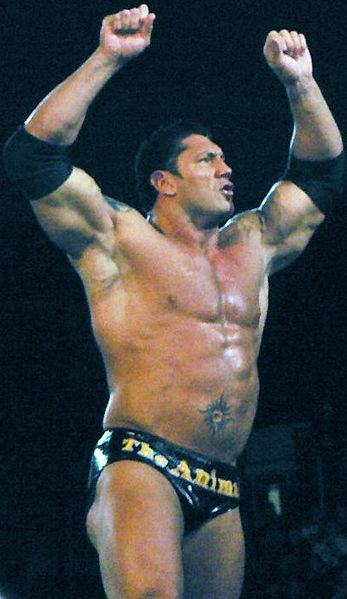 A pic of batista I took at a Smackdown! live event in 2006 in Cincinnati Ohio.